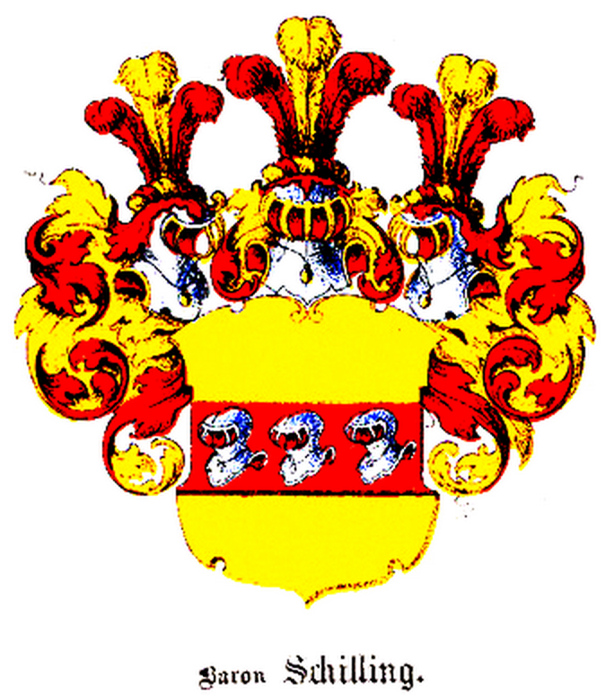 Coat of Arms of baron Schilling family